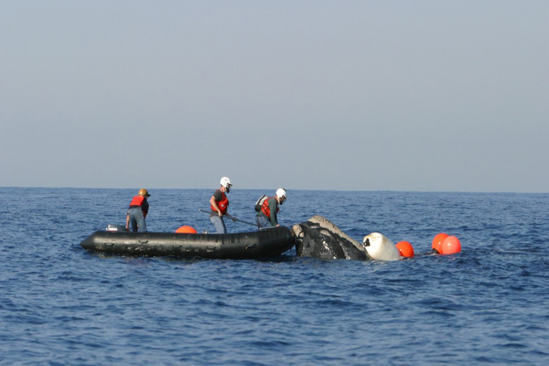 NOAA Fisheries is responsible for the Large Whale Disentanglement Program which conducts disentanglement operations, research, and management to enhance the recovery of large whale species. In this photo taken off the coast of Jacksonville, Florida, NOAA staff and external partners perform close operations to disentangle a North Atlantic right whale. The animal was observed entangled with gear wrapped around both flippers and encircling its entire body. The rescue team was able to remove enough gear to allow the whale to shed most of the remaining gear on its own. The bow person is Dr. 'Stormy' Mayo of the Center for Coastal Studies, the middleman with the cutting tool is Jamison Smith of NOAA Fisheries, and the driver in the stern of the vessel is Chris Slay of Coastwise Consulting.